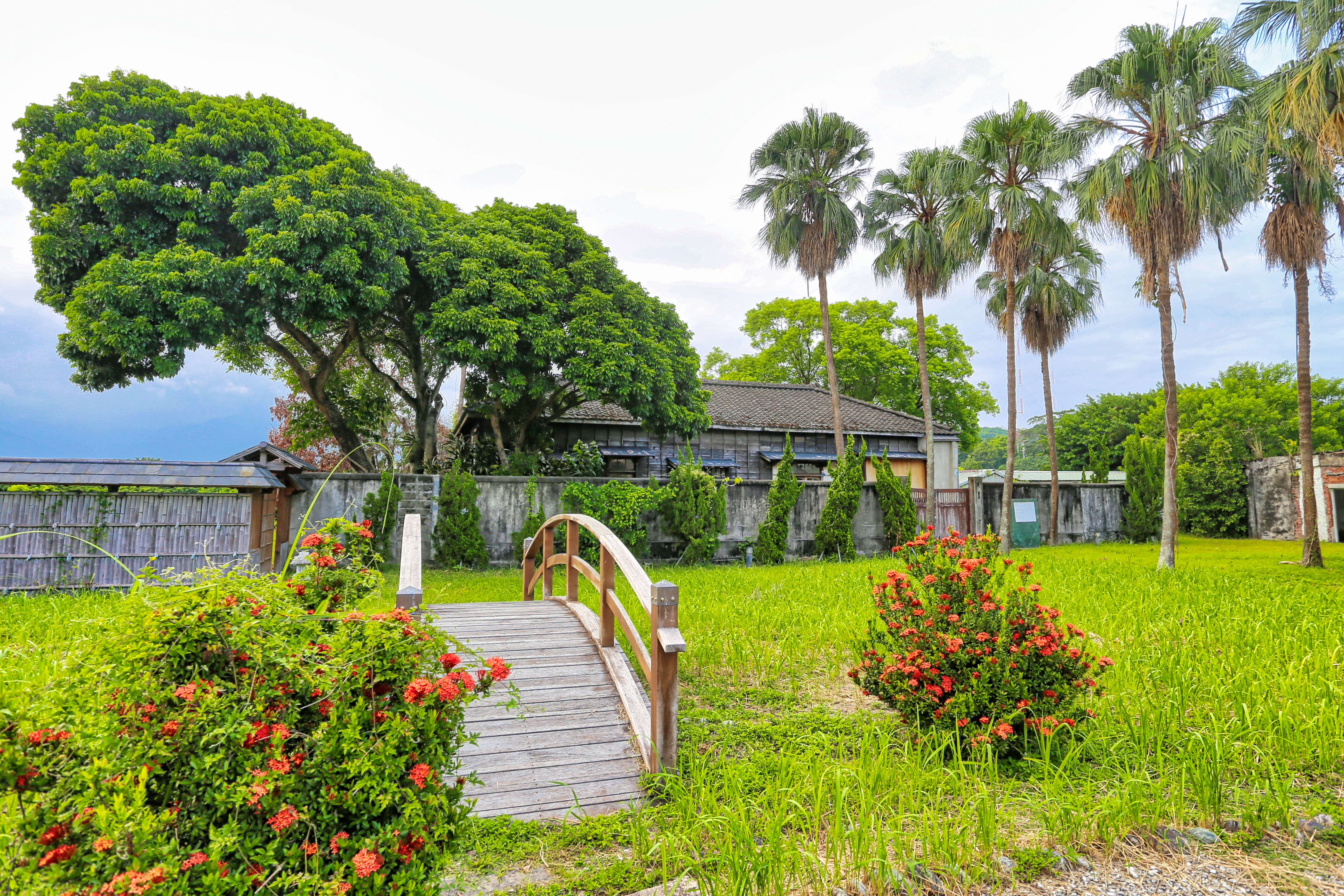 Former Karenko Girls' Senior High School (Girls’ Senior High School of Hualien Port) Principal's Residence, Hualien City, Taiwan.